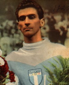 Reinaldo Gorno, after Men's Marathon at 1952 Summer Olympics (Helsinki)